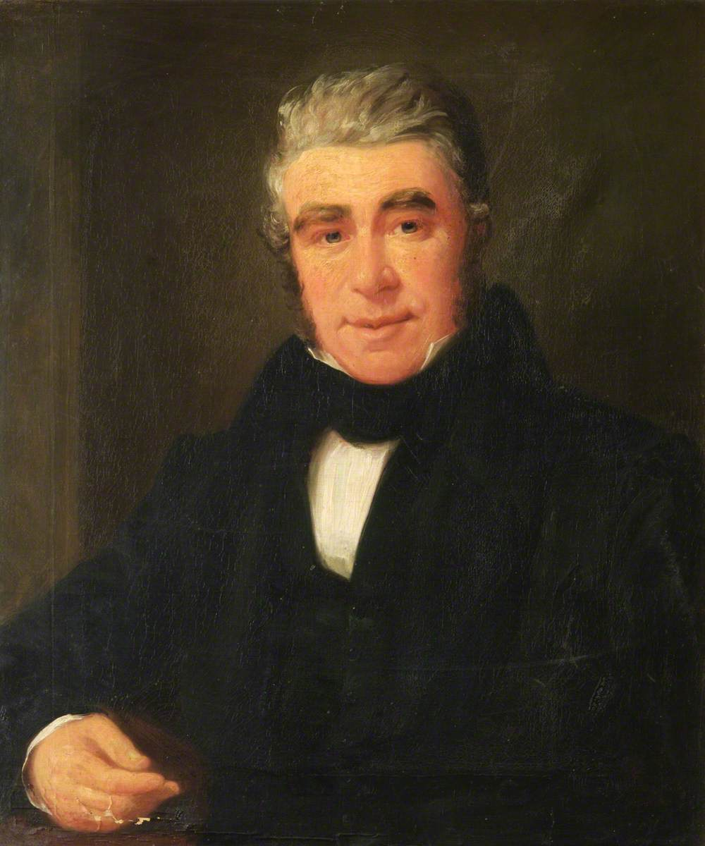 Captain Donald Manson, Harbormaster of Peterhead